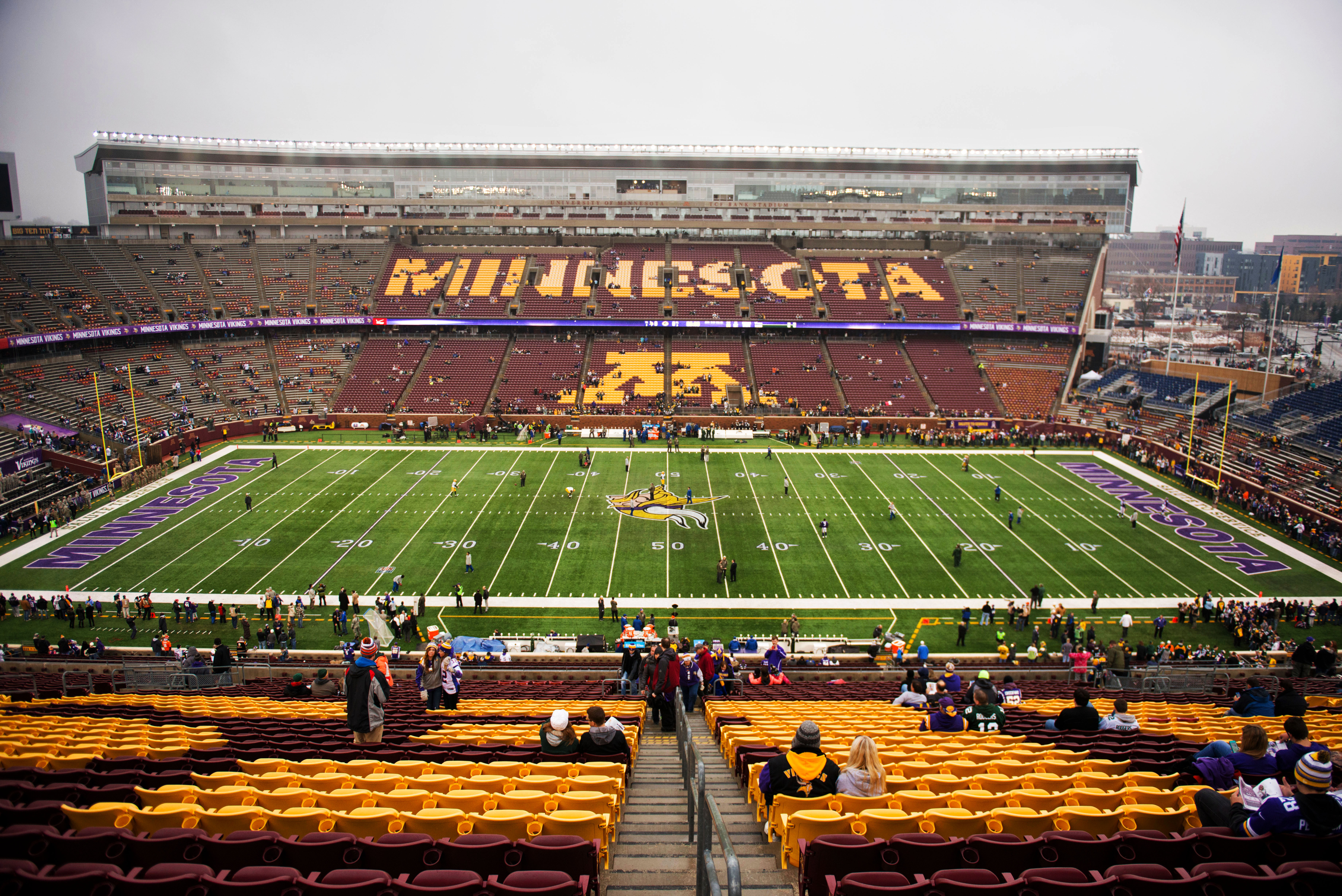 Service members from all branches celebrated the Minnesota Vikings’ Military Appreciation Day at the University of Minnesota Field on Nov. 23, 2014. Recognized were members of the 114th Transportation Company – recently returned from Afghanistan – who unfurled the large flag, ran the Red Bull flag with the Vikings’ Flag Runners and marched onto the field to report to Minnesota National Guard Adjutant General, Maj. Gen. Richard C. Nash, and Senior Enlisted Advisor, Command Sgt. Maj. Douglas Wortham. Additionally, Sgt. Thomas Block, 2014 Army Times Soldier of the Year, blew the Gjallarhorn after a joint color guard and all-branches flag presentation were displayed on the field during the singing of the National Anthem by two service members – Airman 1st Class Brooke Colby and Staff Sgt. Ryan Ringwelski. Also recognized were three WWII veterans – Capt. Ted Homdrom, Cpl. Wayne DeVries and Quartermaster 3rd Class Bill Ringold – in addition to Sgt. Baxley, who recently saved a man from a burning vehicle, and 1st Sgt. Robert Renning, who also saved a man from a burning vehicle.